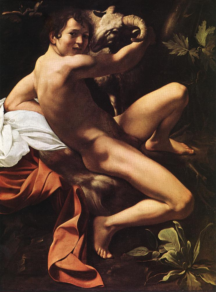 A depiction of John the Baptist, the cousin of Jesus whose calling was to prepare the way for the coming of the Messiah. The painting is also known as Youth with a Ram, and there is another version in the Capitoline Museums in Rome.